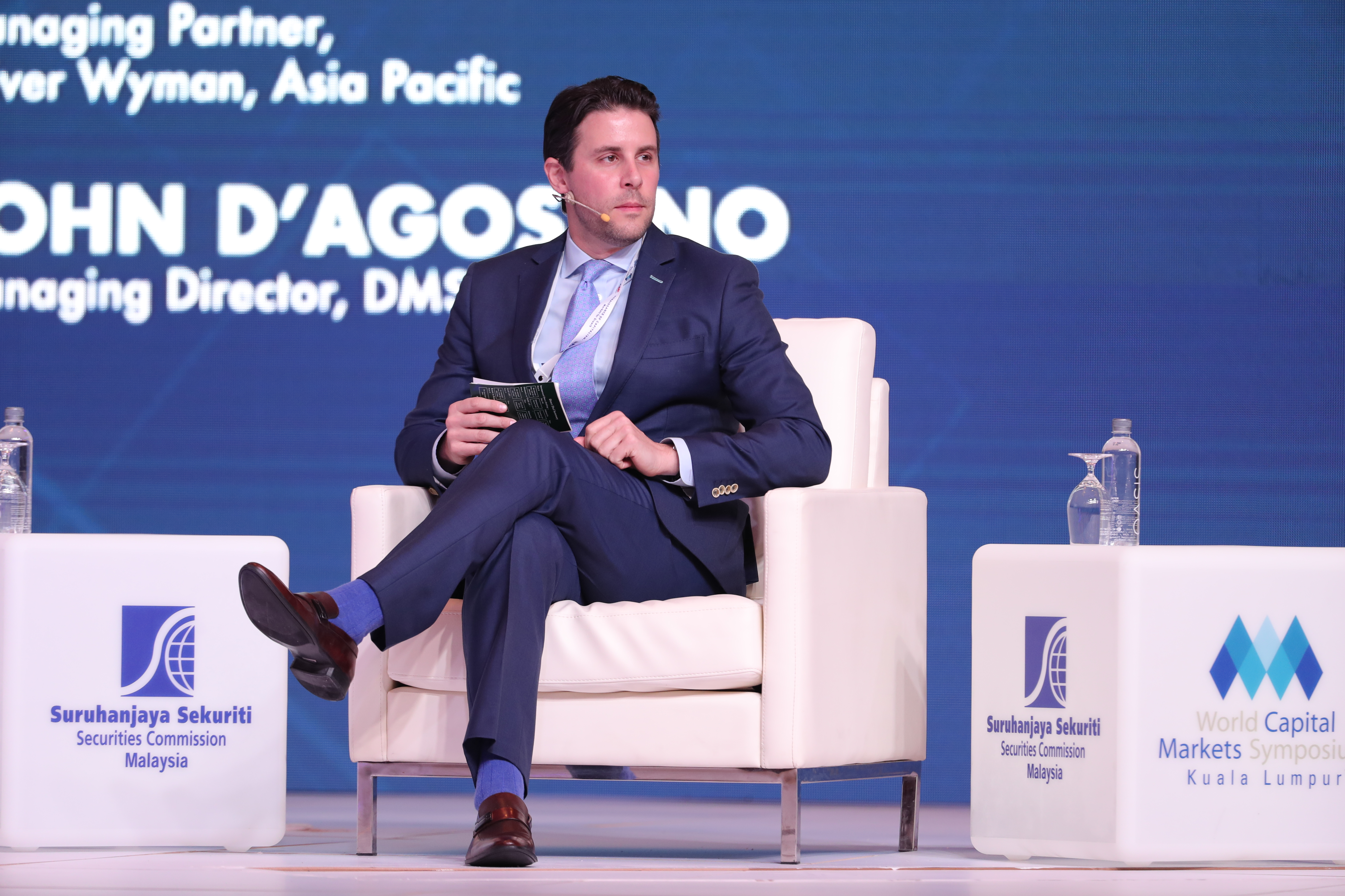 John D'Agostino at 'The World Capital Markets Symposium, Kuala Lumpur in 2018. Quotes made during the time of the photograph. "It doesn't matter if we are ready or not, the future is decidedly female" - John D'Agostino[1]